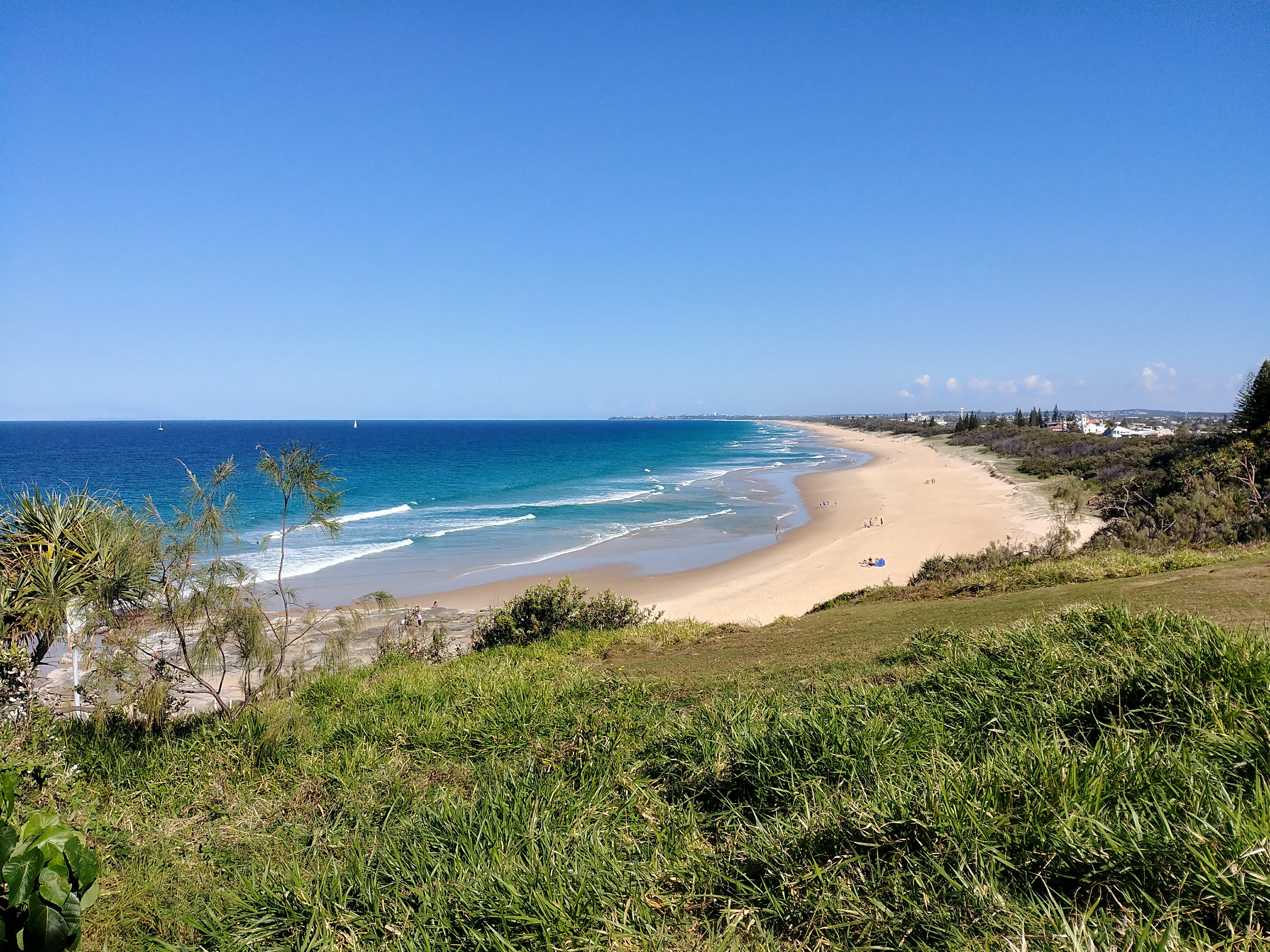 A typical Australian beach at Buddina